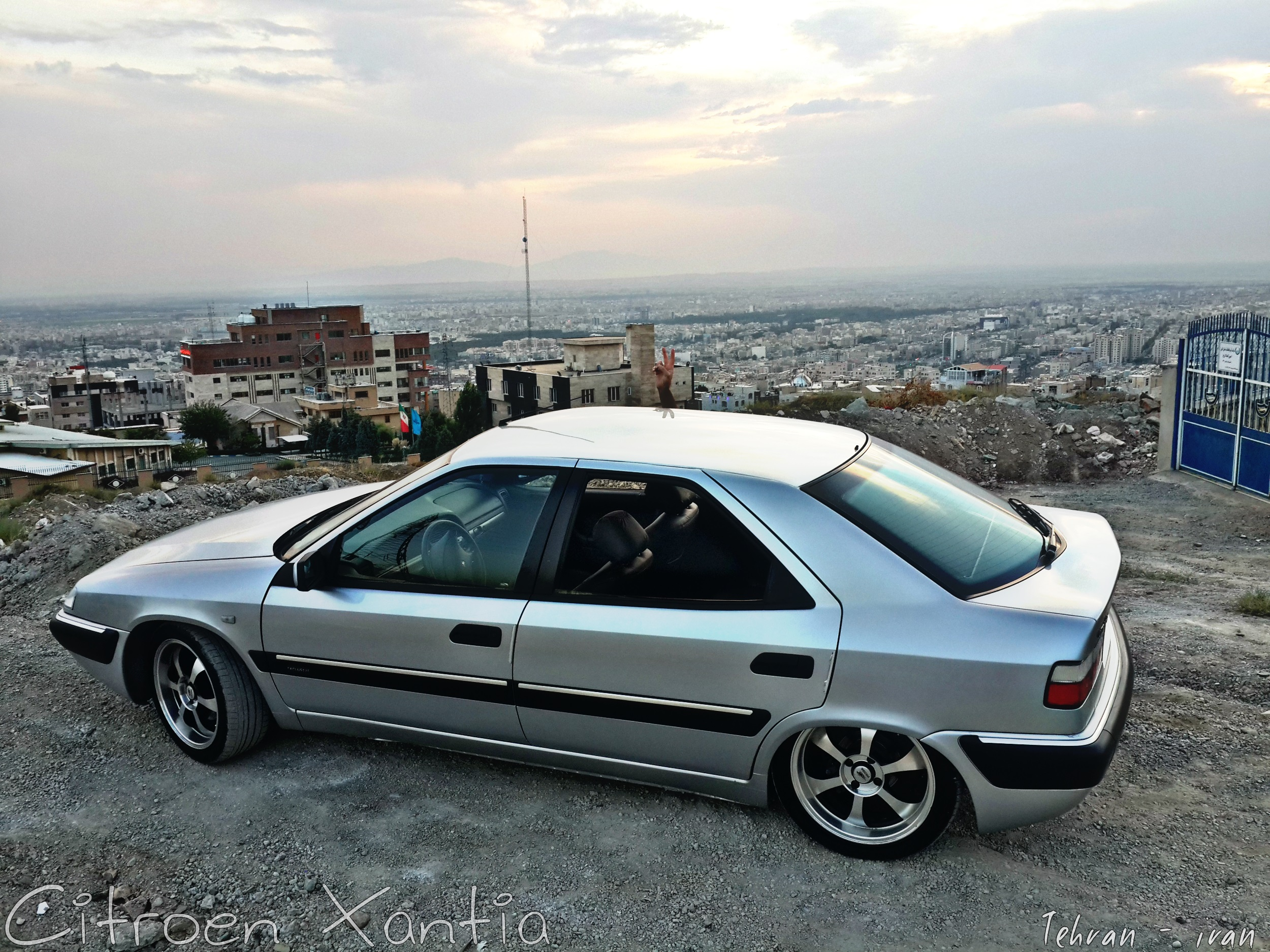 citroen xantia in iran